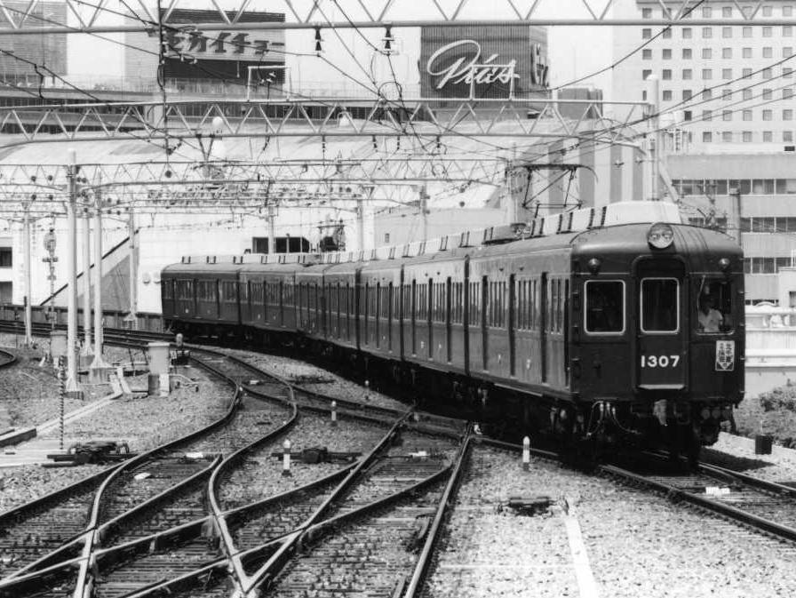 A Hankyu 1300 series EMU retrofitted with roof-mounted air-conditioning